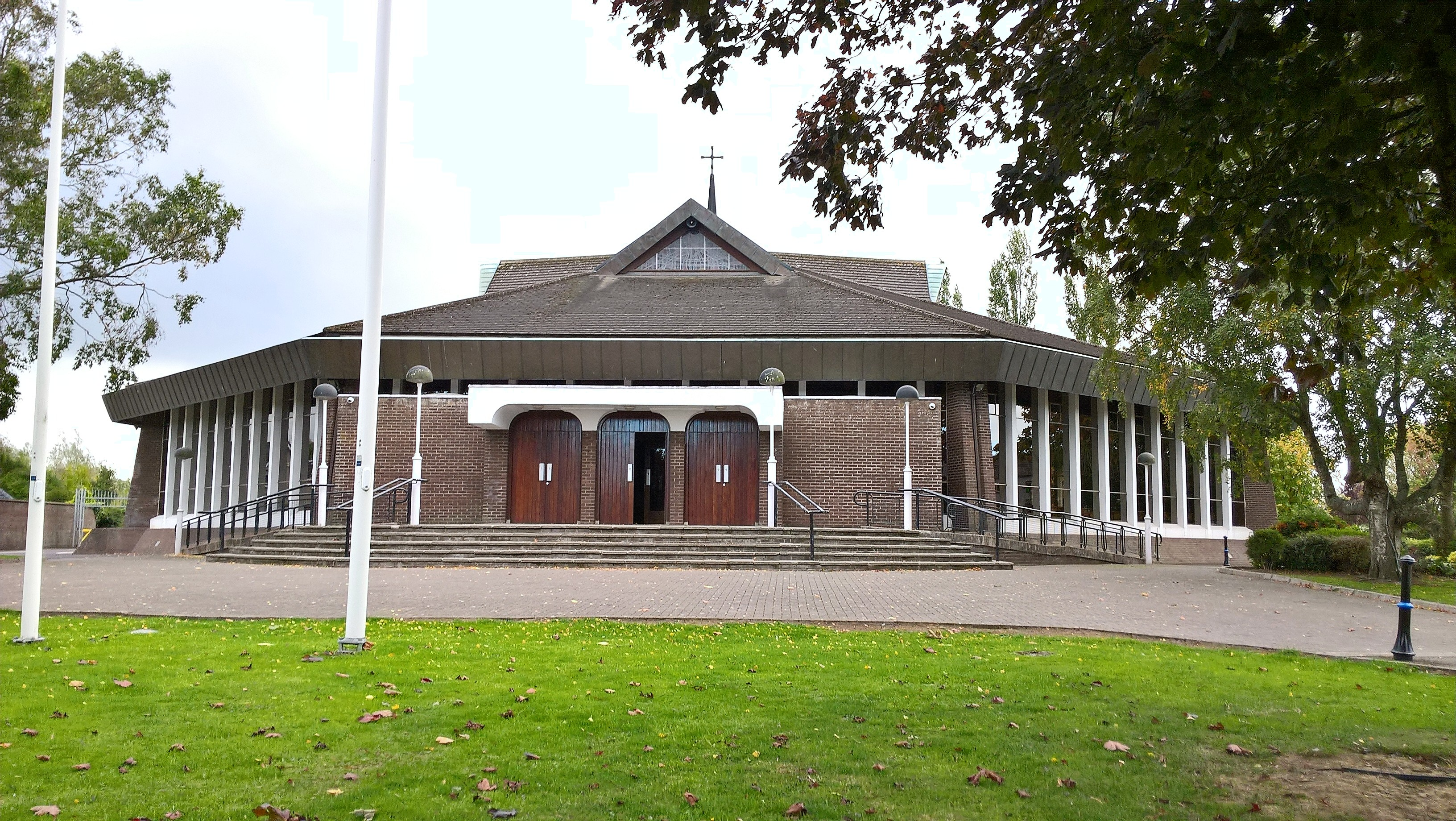 Ardee, The Church of the Nativity of Our Lady. Wikidata has entry Q55028979 with data related to this item.